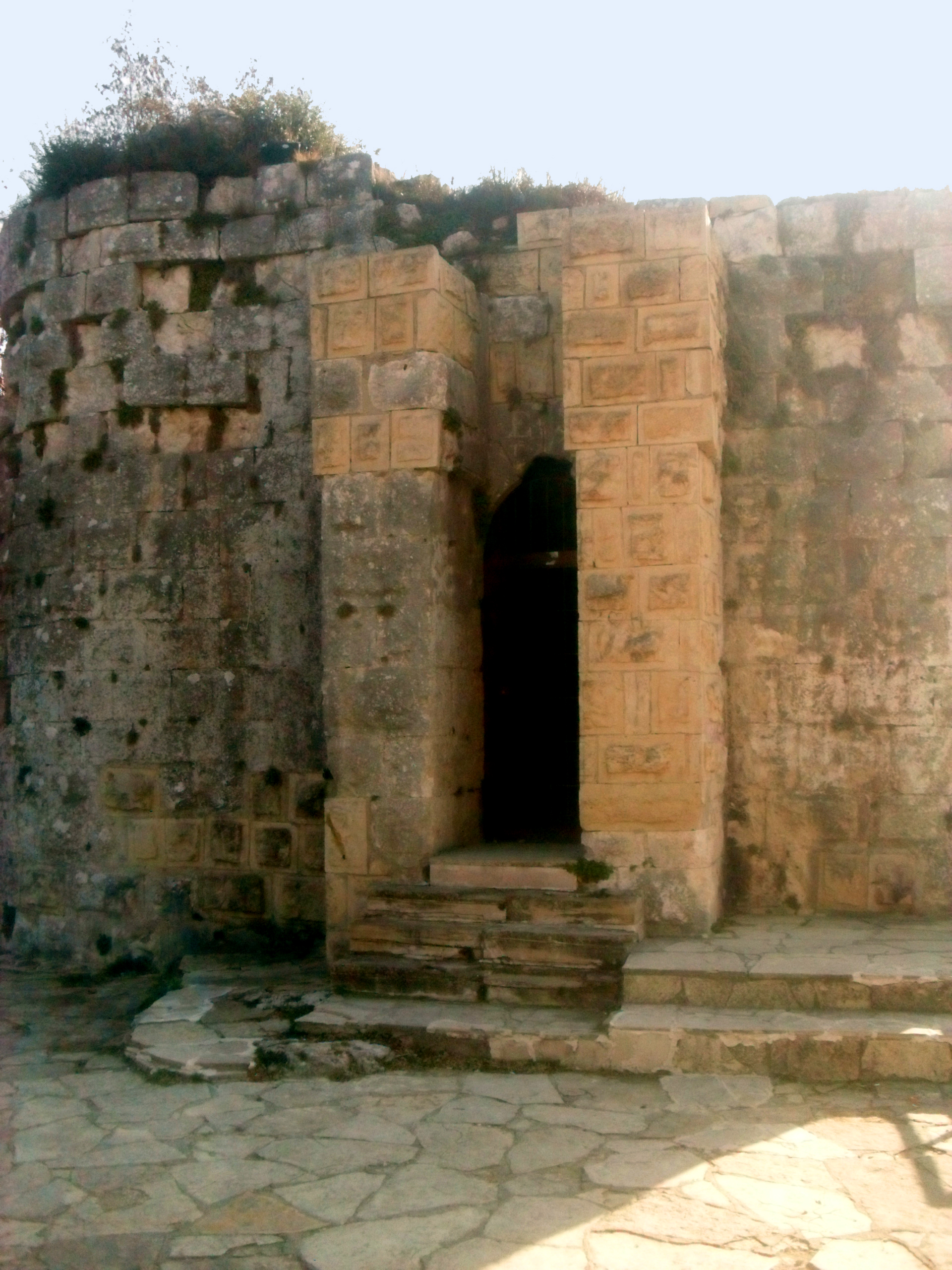 Gözne Castle, Mersin Province, Turkey